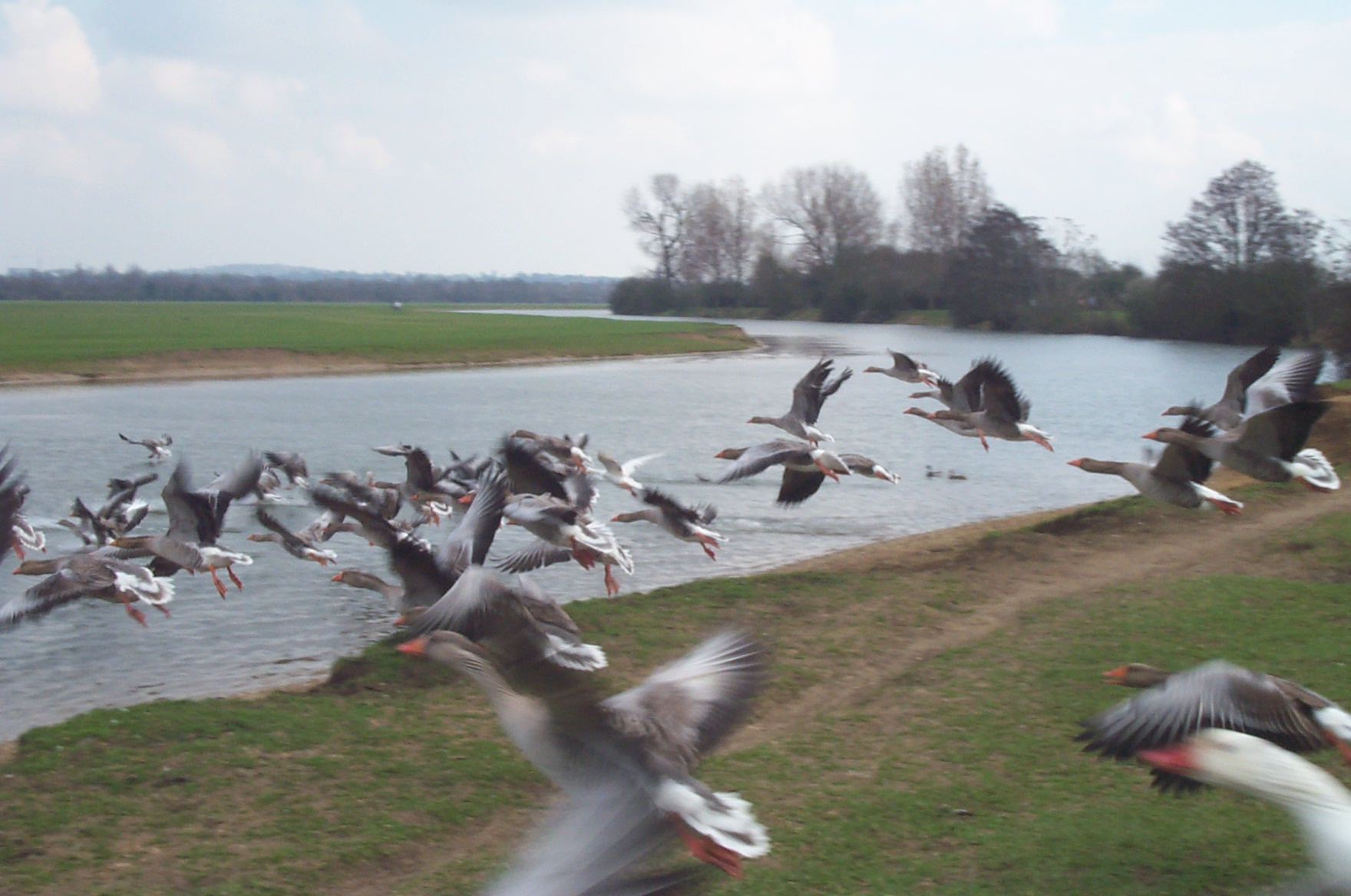 Geese flying, Port Meadow, Oxford